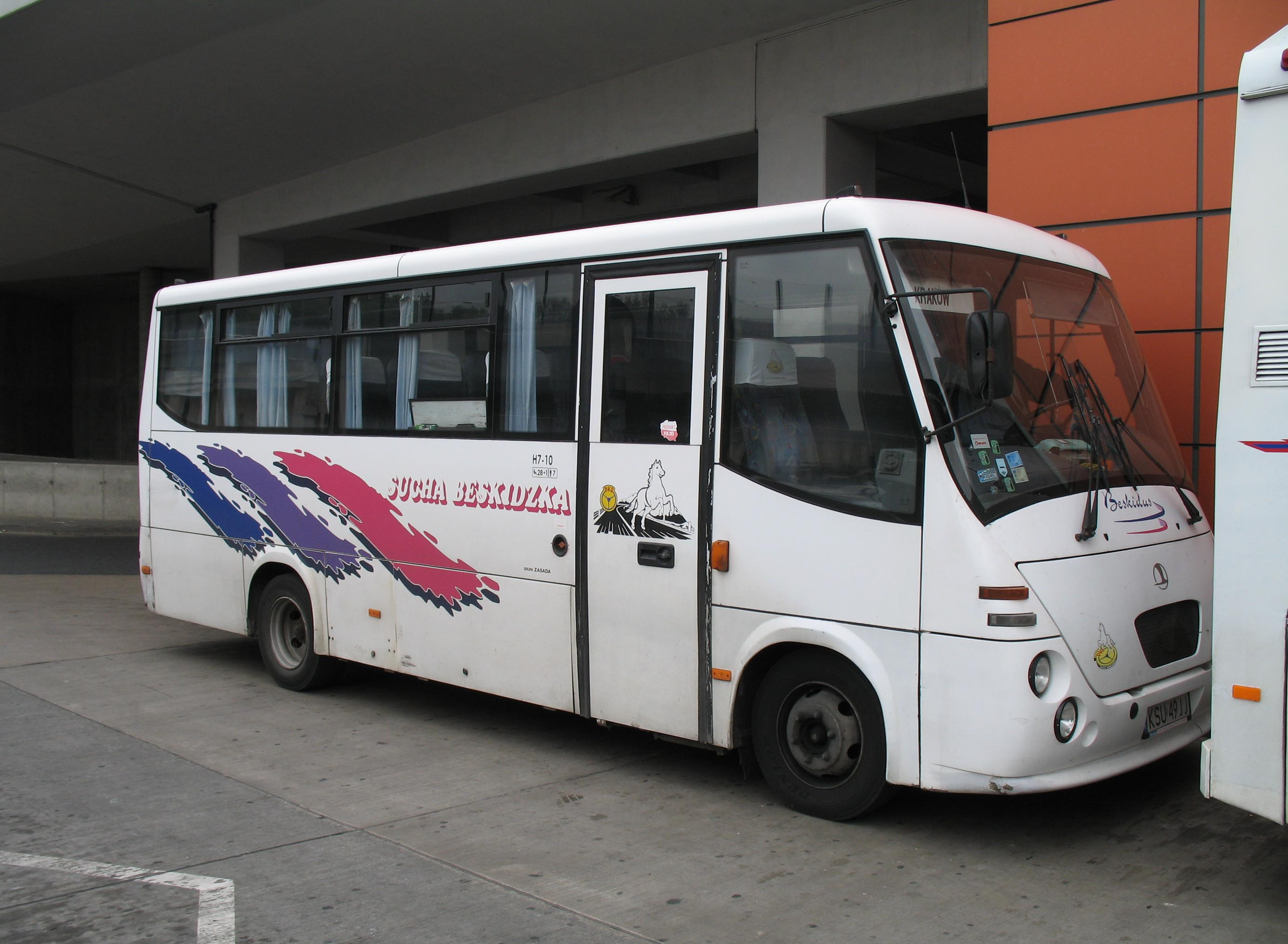 Autosan H7-10.04 bus in Kraków, Poland. Built 2003, Beskidus Zembrzyce operator.